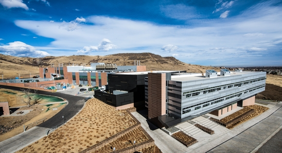 The Energy Systems Integration Facility at the National Renewable Energy Laboratory in Golden, Colorado.